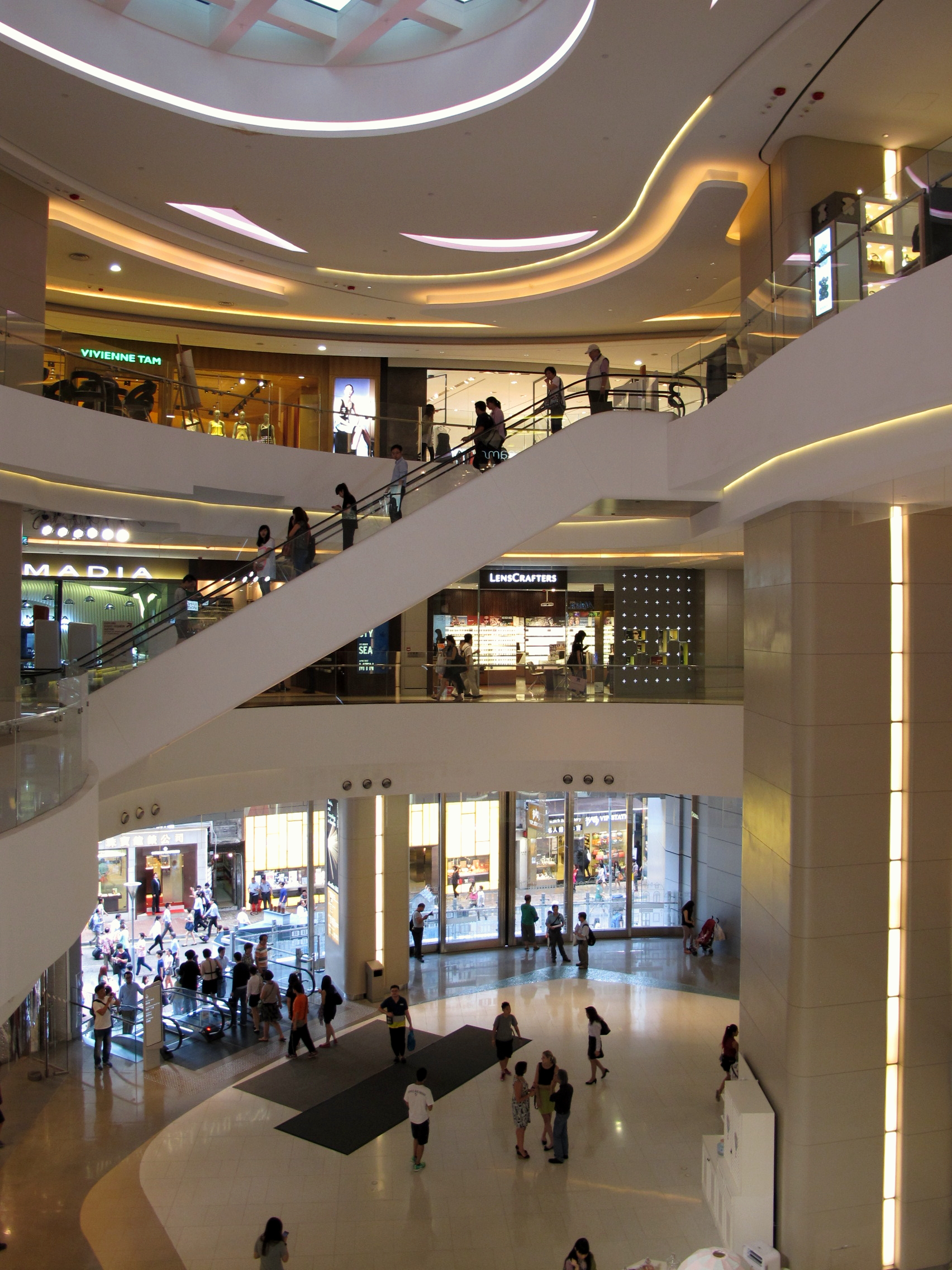 Hysan Place Void